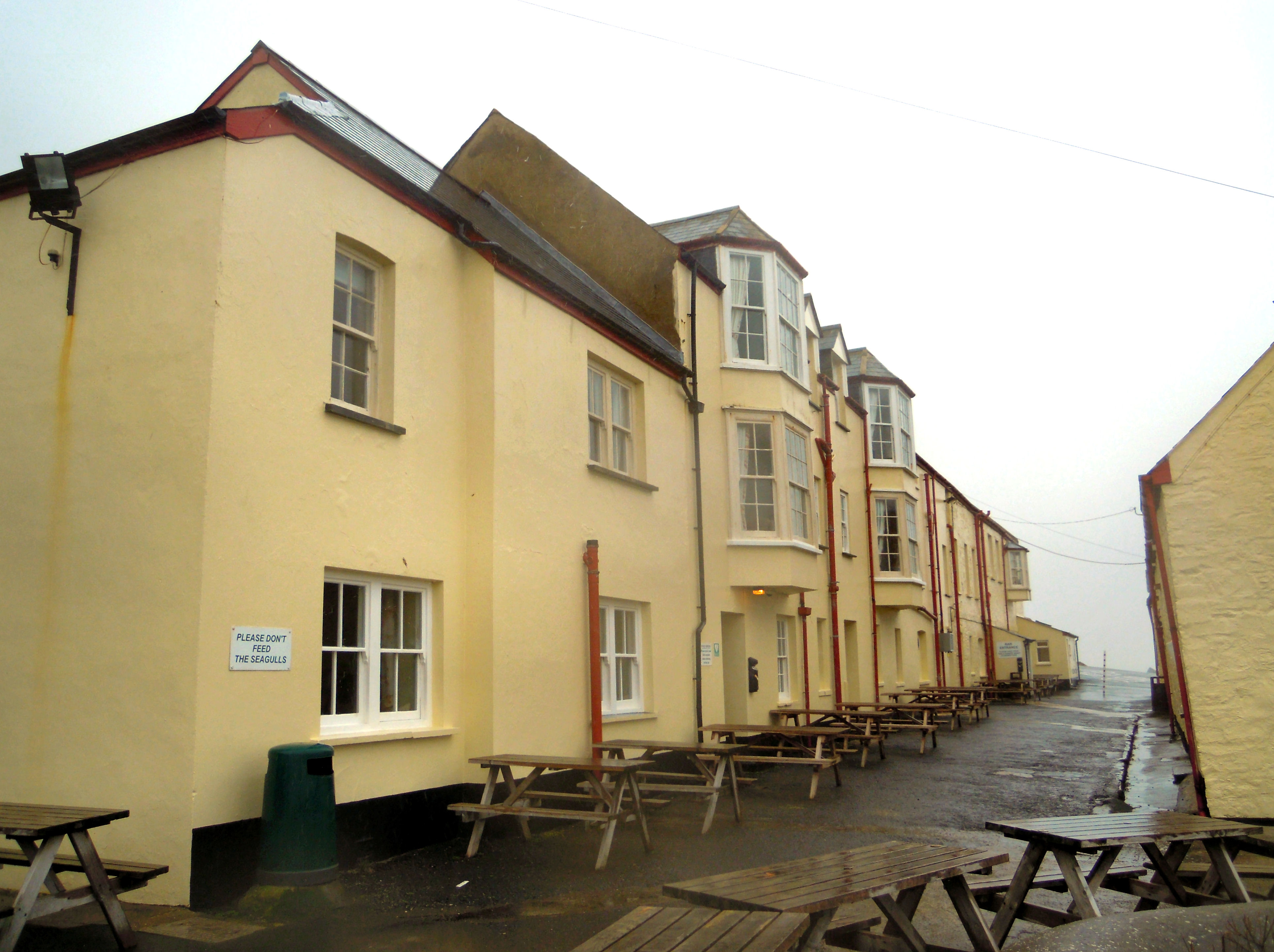 Hartland Quay Hotel (nearest to camera left) and the 'Wrecker's Retreat' public house (beside it right) on a stormy day at Hartland Quay